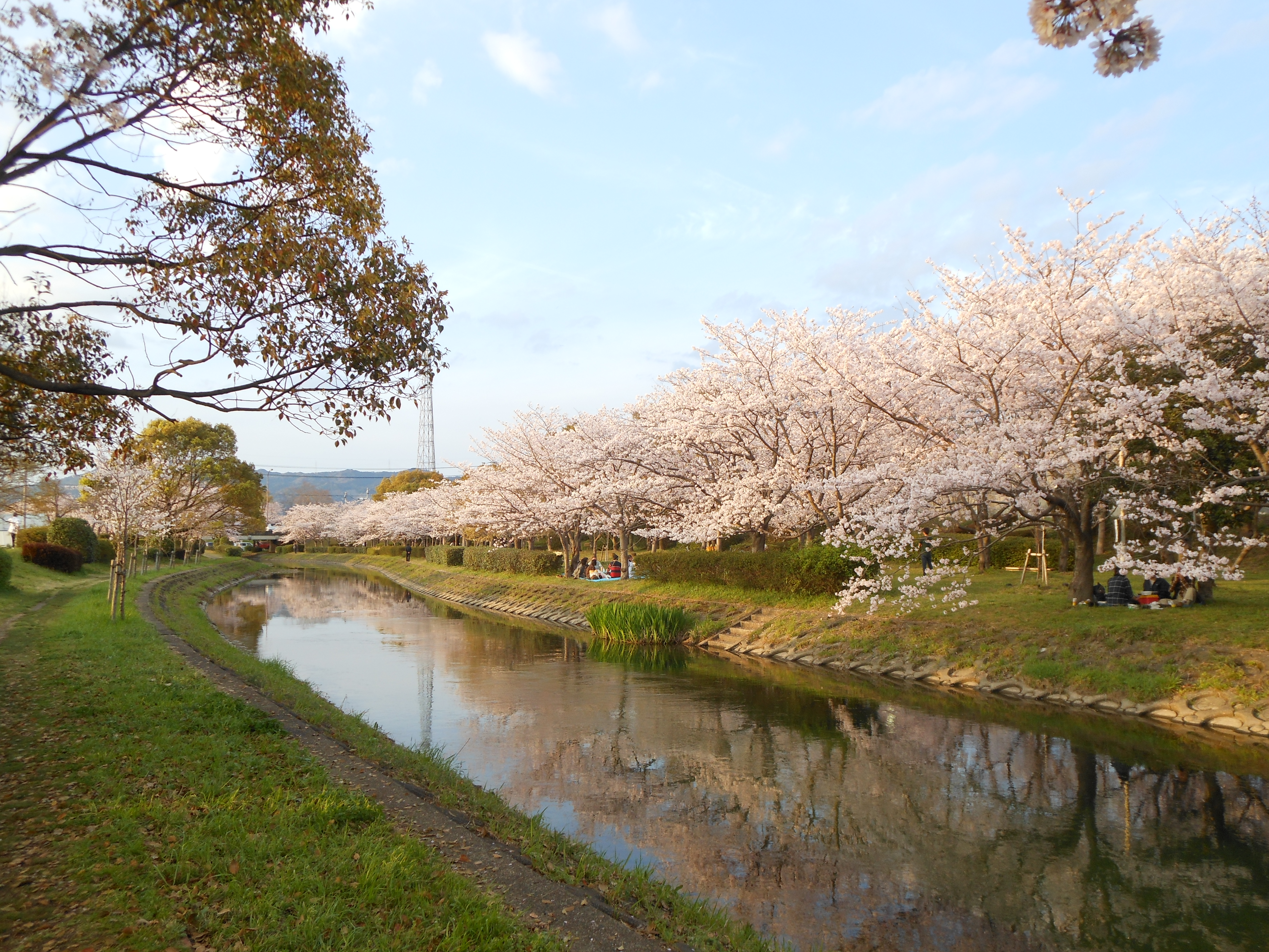 Cherry blossom trees at side of Tafuse River in Saga City.